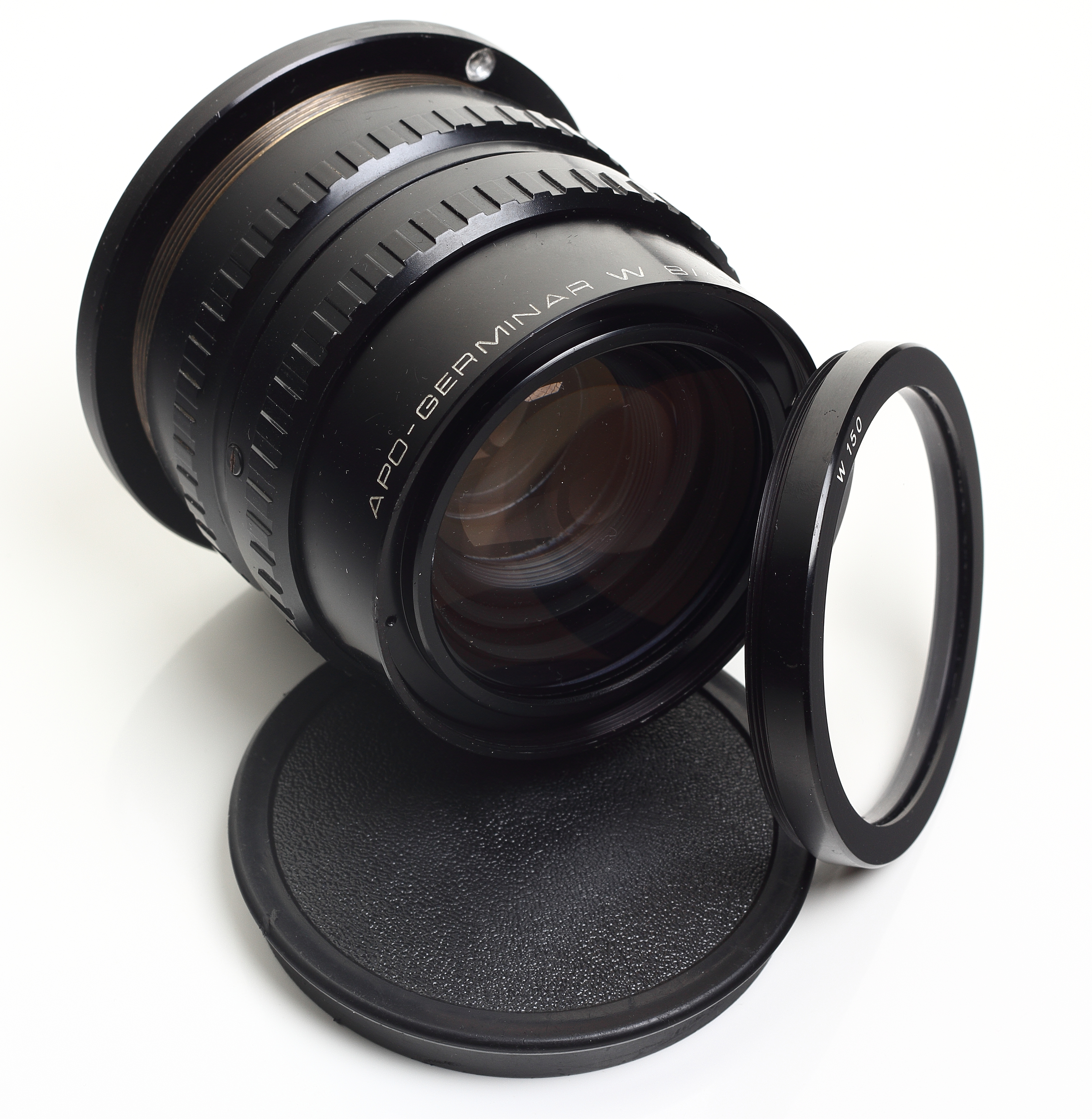 Lens - Carl Zeiss jena APO-Germinar W B-150 and filter